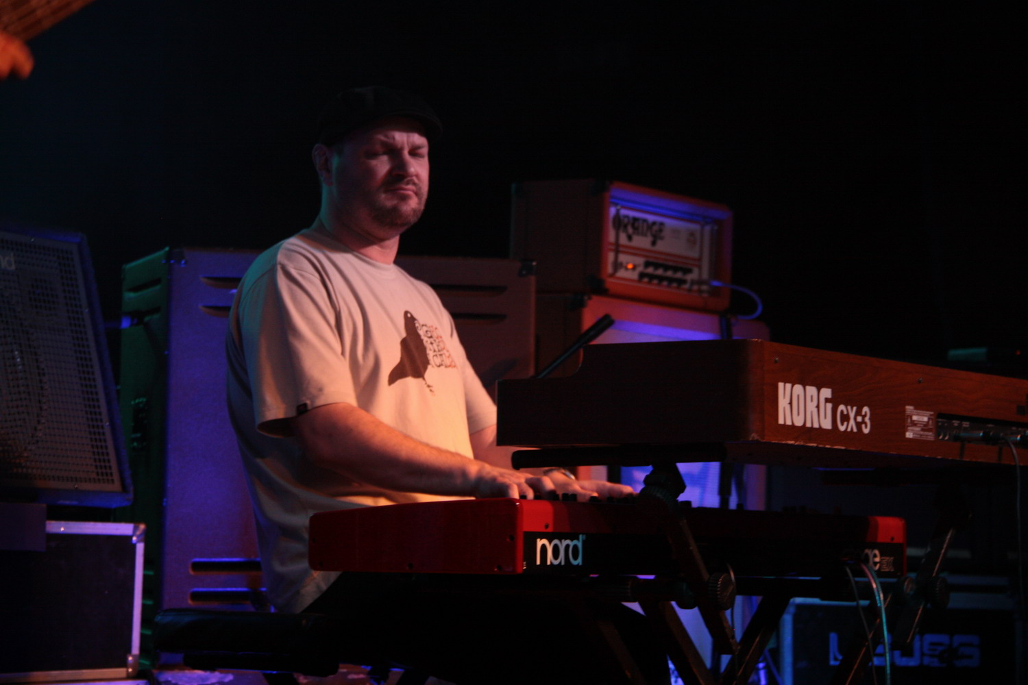 Janusz Borzucki,organist of DŻEM, during the concert in Busko-Zdrój, 25 april 2010 r.